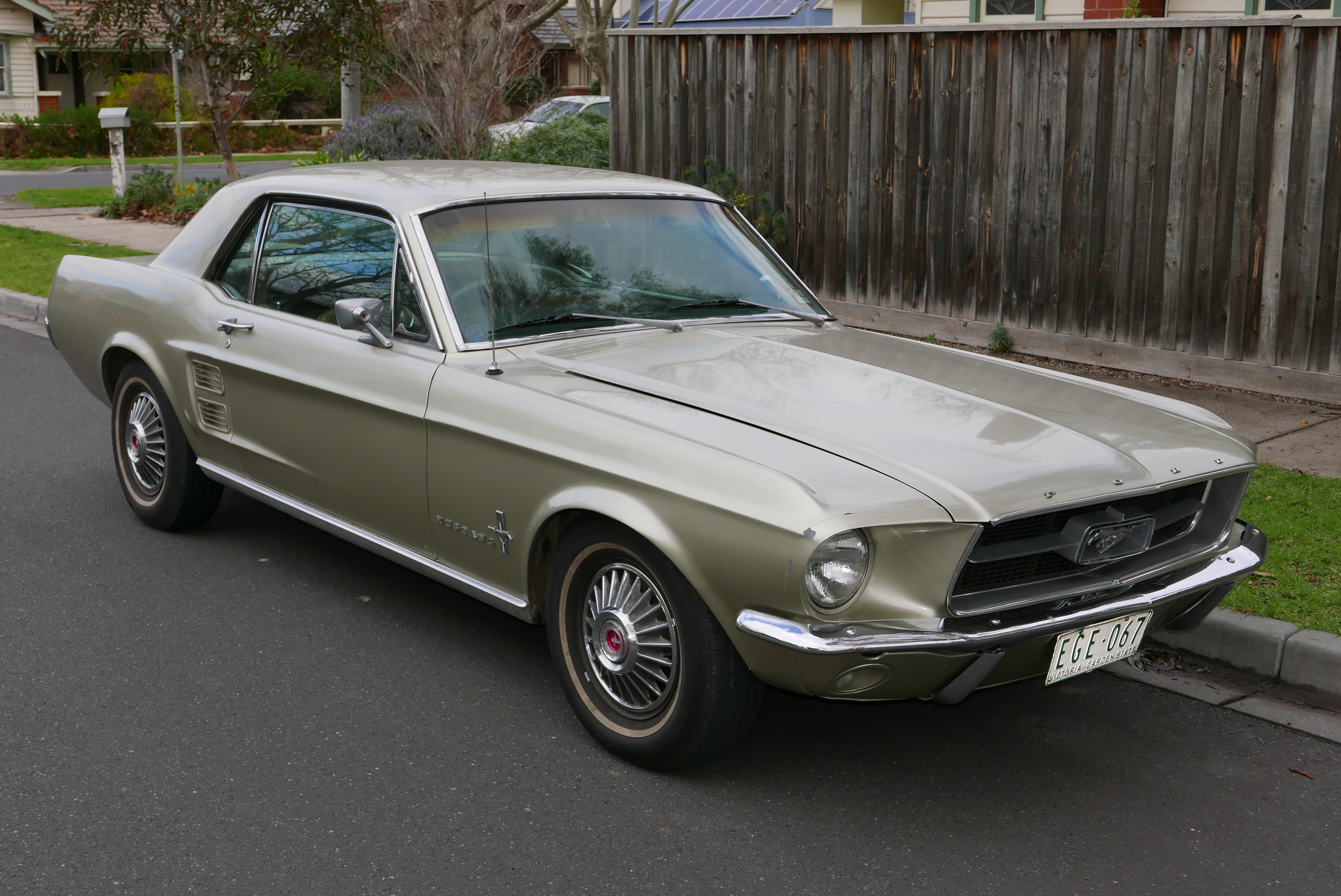 1967 Ford Mustang coupe. Photographed in Alphington, Victoria, Australia. Vehicle registration enquiry results Jurisdiction Victoria Registration EGE067 Chassis code 7R01C167928 Engine code 3R154875 Compliance date Not available Year of manufacture 1967